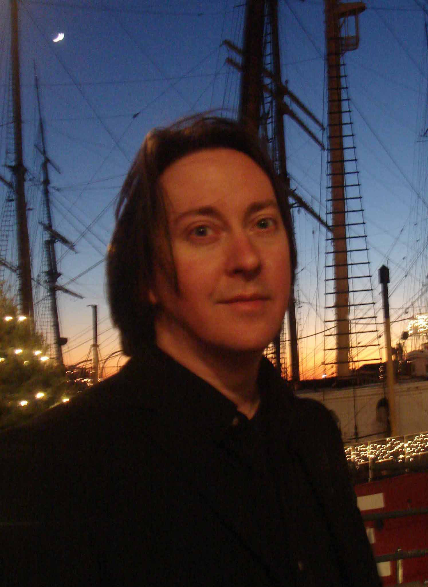 Bernard MacMahon in February 2014